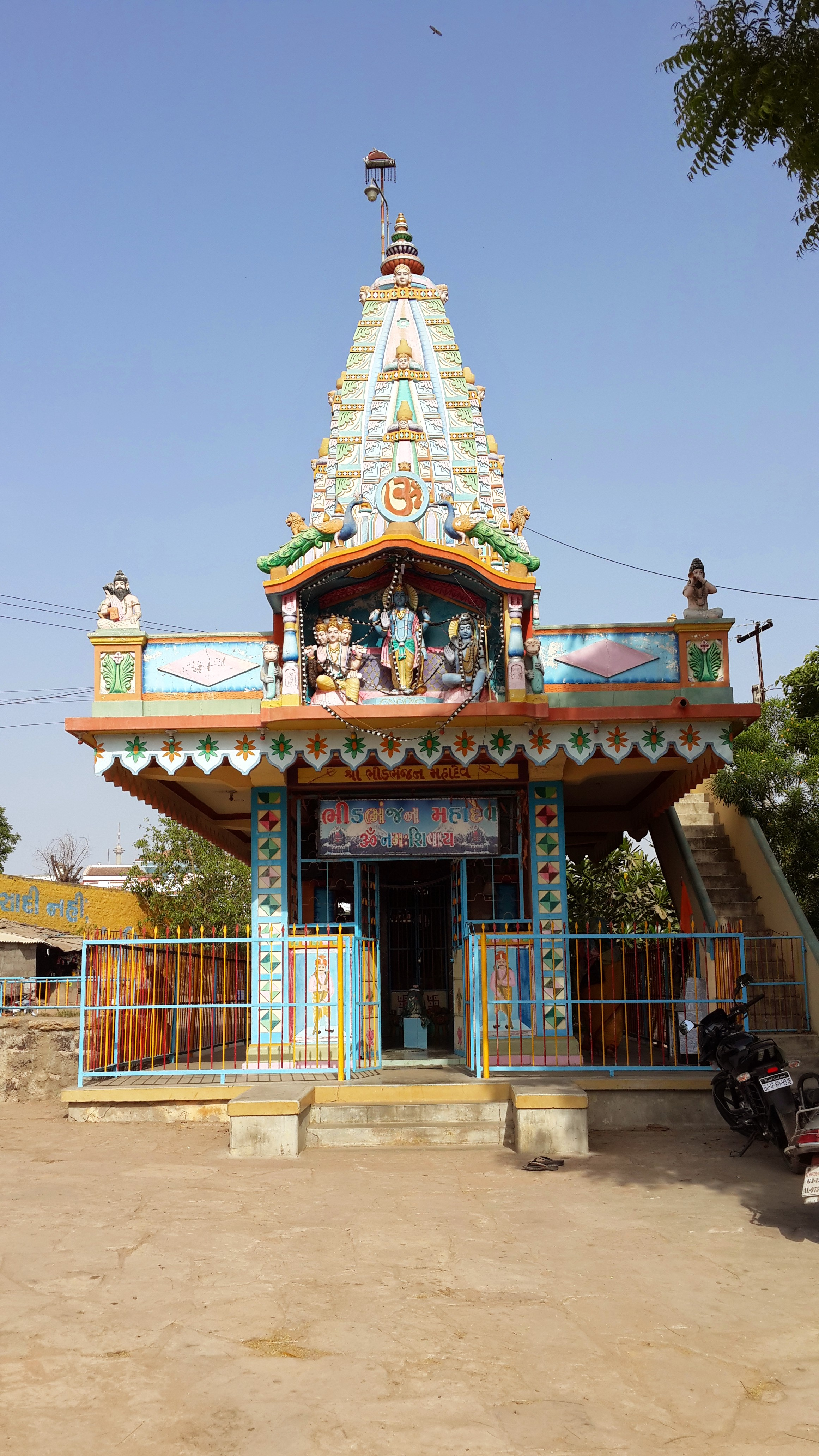 Mahadev Temple, Samatra, Kutch